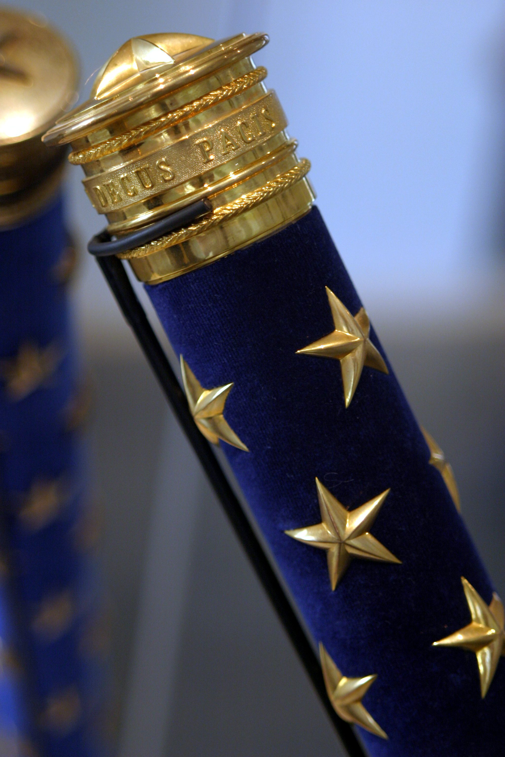 Baton of a modern Marshal of France. This image was taken at the Musée de l'Armée, Paris.